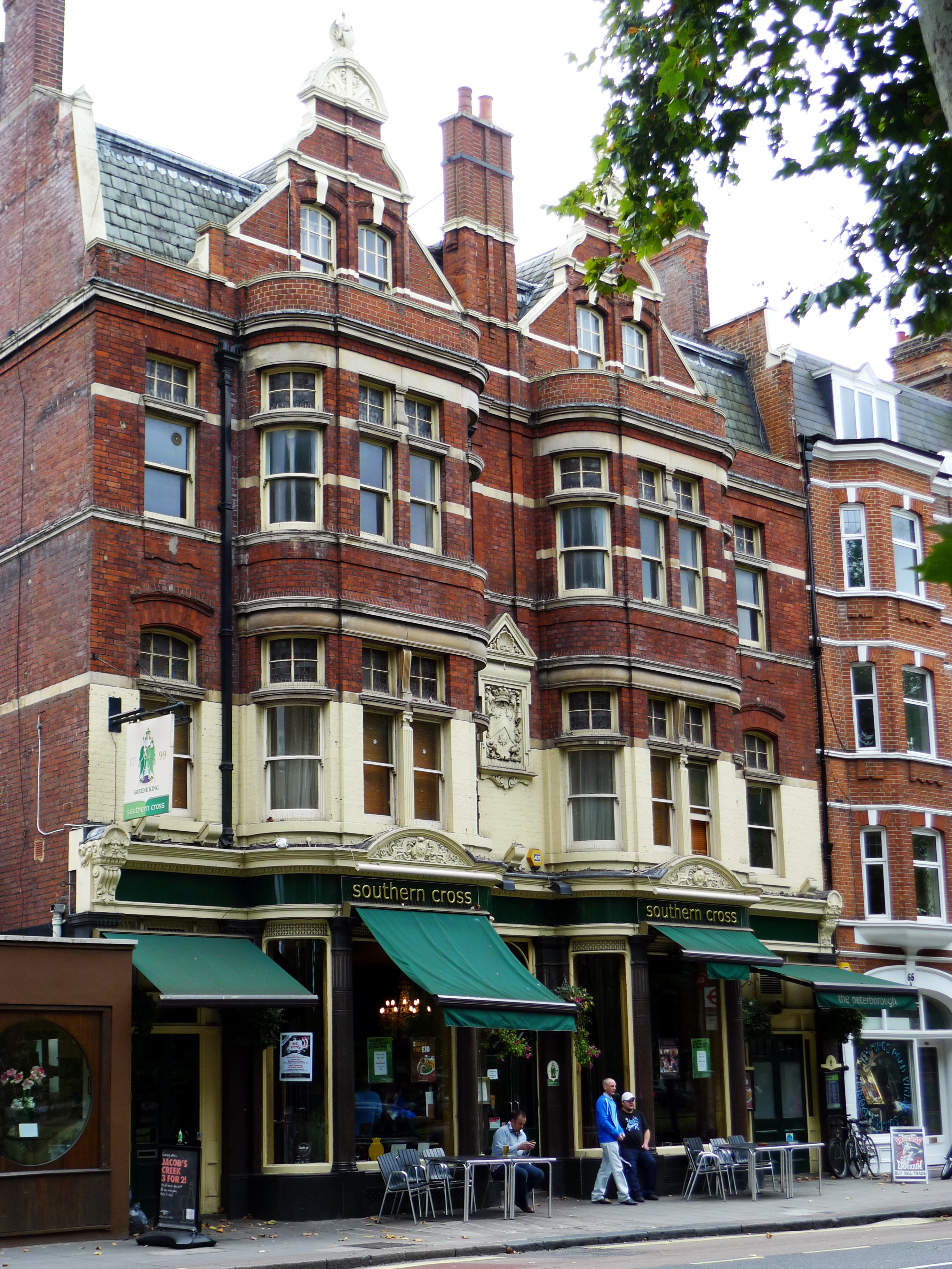 Antipodean pub just by Eel Brook Common. Address: 65 New Kings Road. Former Name(s): The Peterborough (Hotel). Owner: Greene King (website); Charrington (former). Links: Pubs Galore Beer in the Evening Qype Dead Pubs (history)